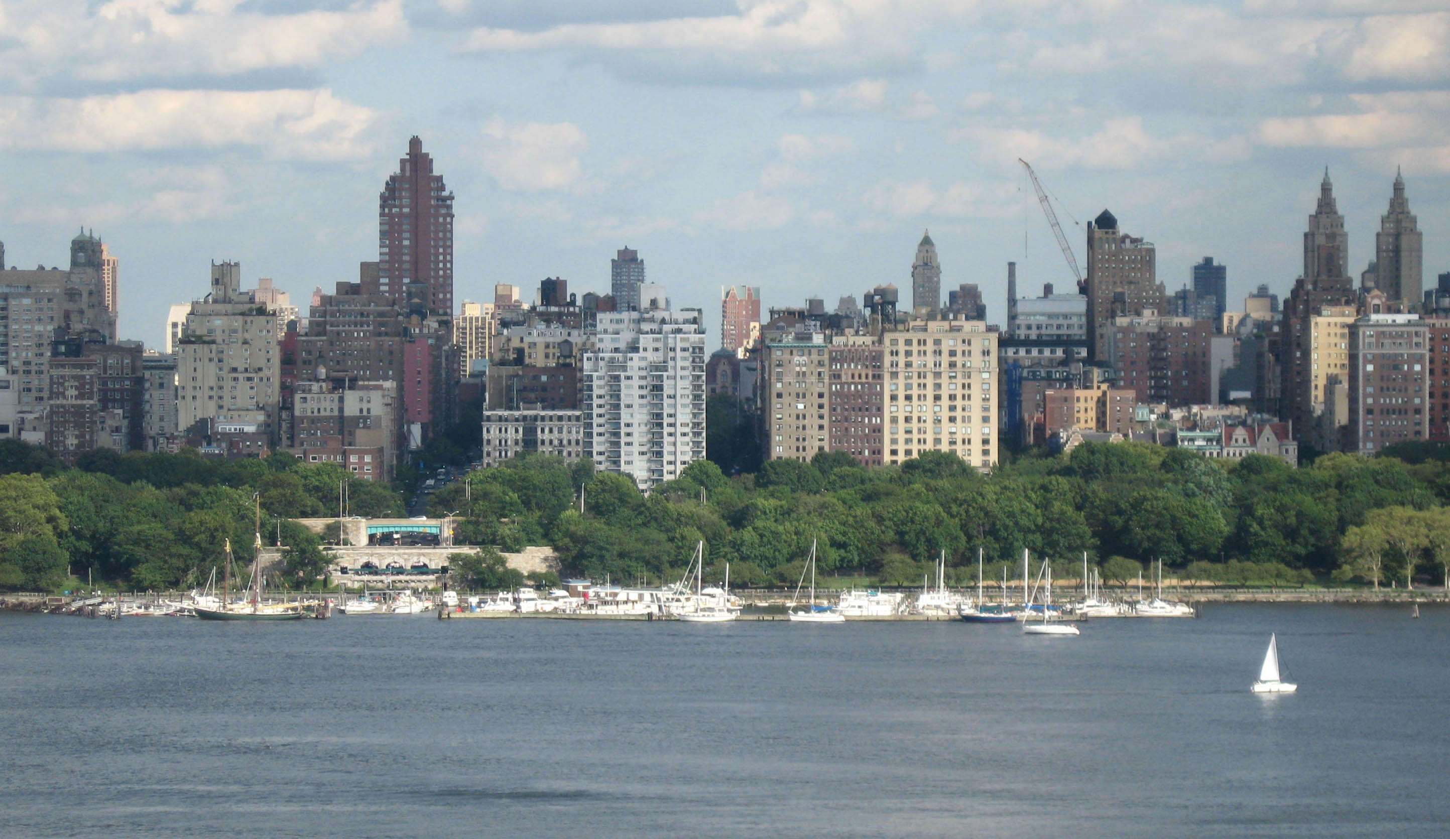 Looking east across the river from Gutenberg, New Jersey at 79th Street Boat Basin on a clouding up midday